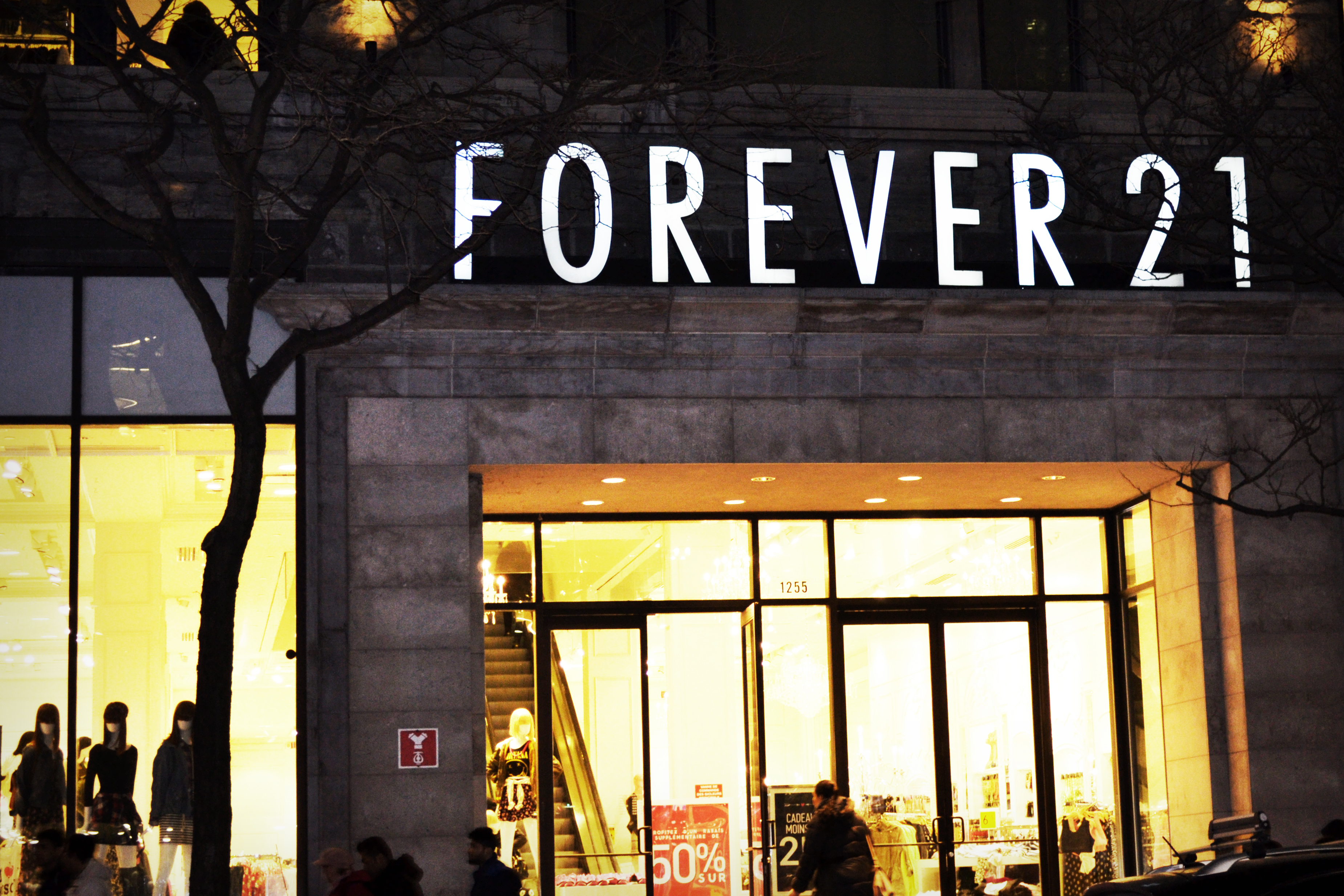 This is a photo of the Forever21 clothing store in Montreal (Quebec, Canada). If you make use of this image, please make sure you link to from your own site.